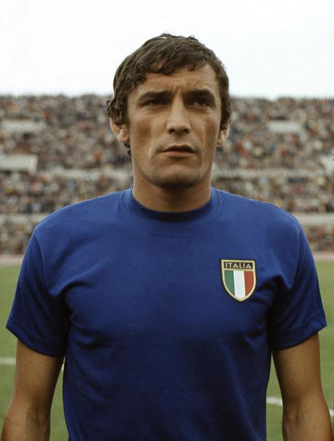 Italian footballer Luigi "Gigi" Riva in 1968 at the Olympic Stadium in Rome.